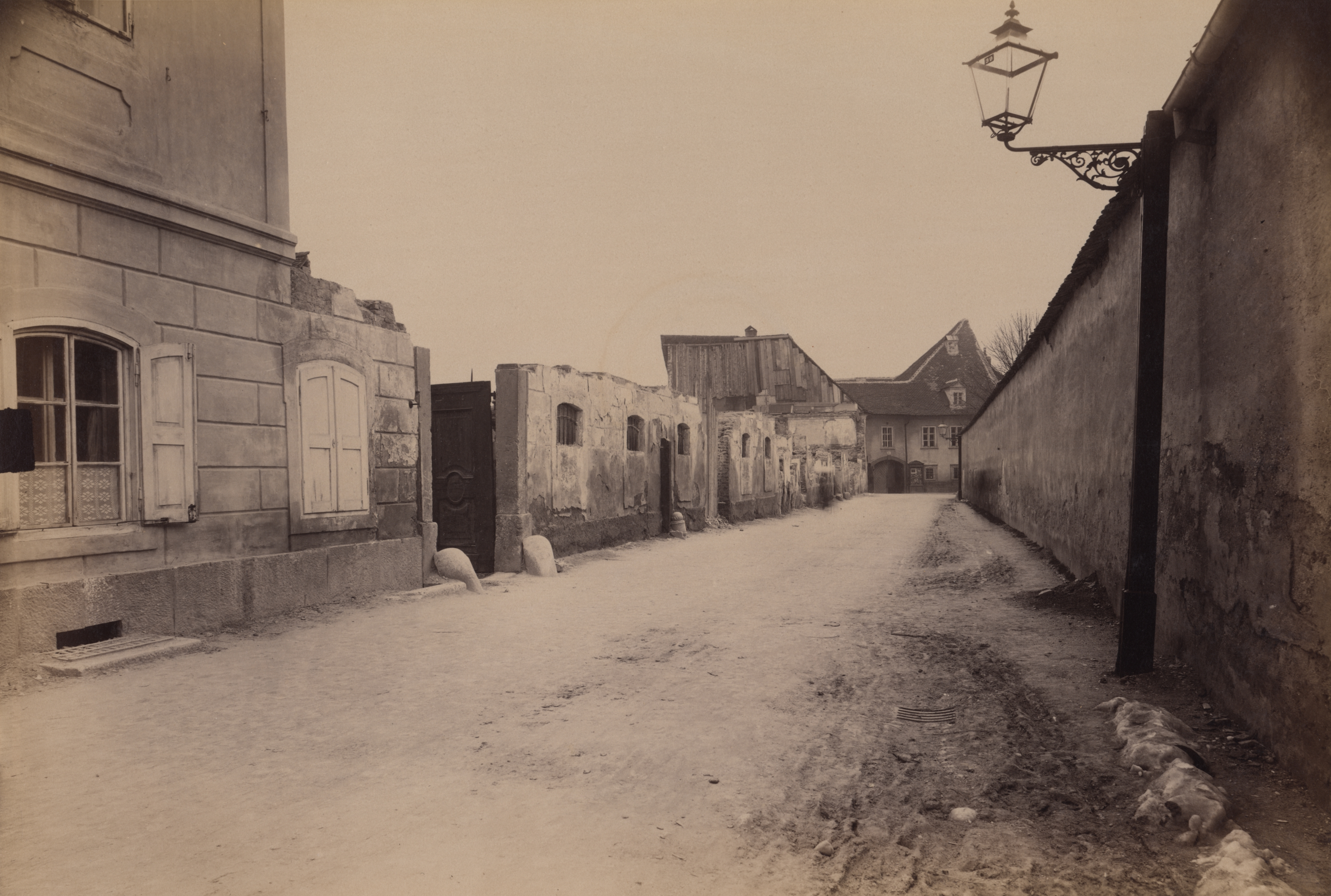 1895 Ljubljana earthquake by Helfer